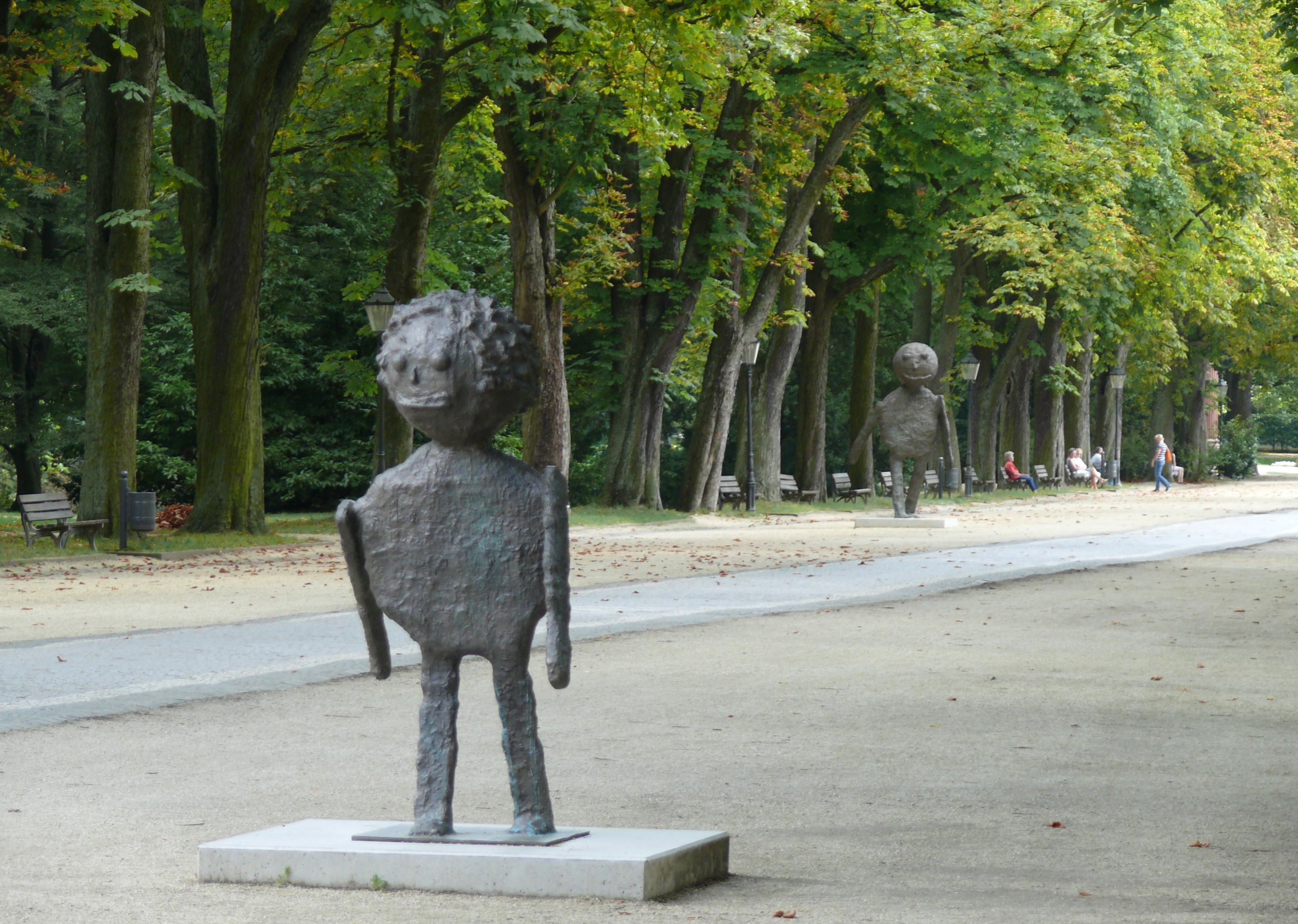 "Globe Head Figure" and "Round Head" from Donald Baechler at "blickachsen 7", 2009, "Kurpark" of Bad Homburg, Hesse, Germany